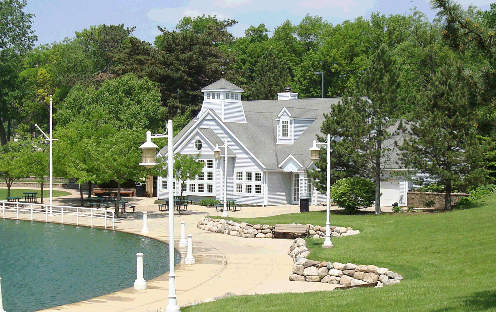 Eastern Michigan University Lake House located on university park at EMU.